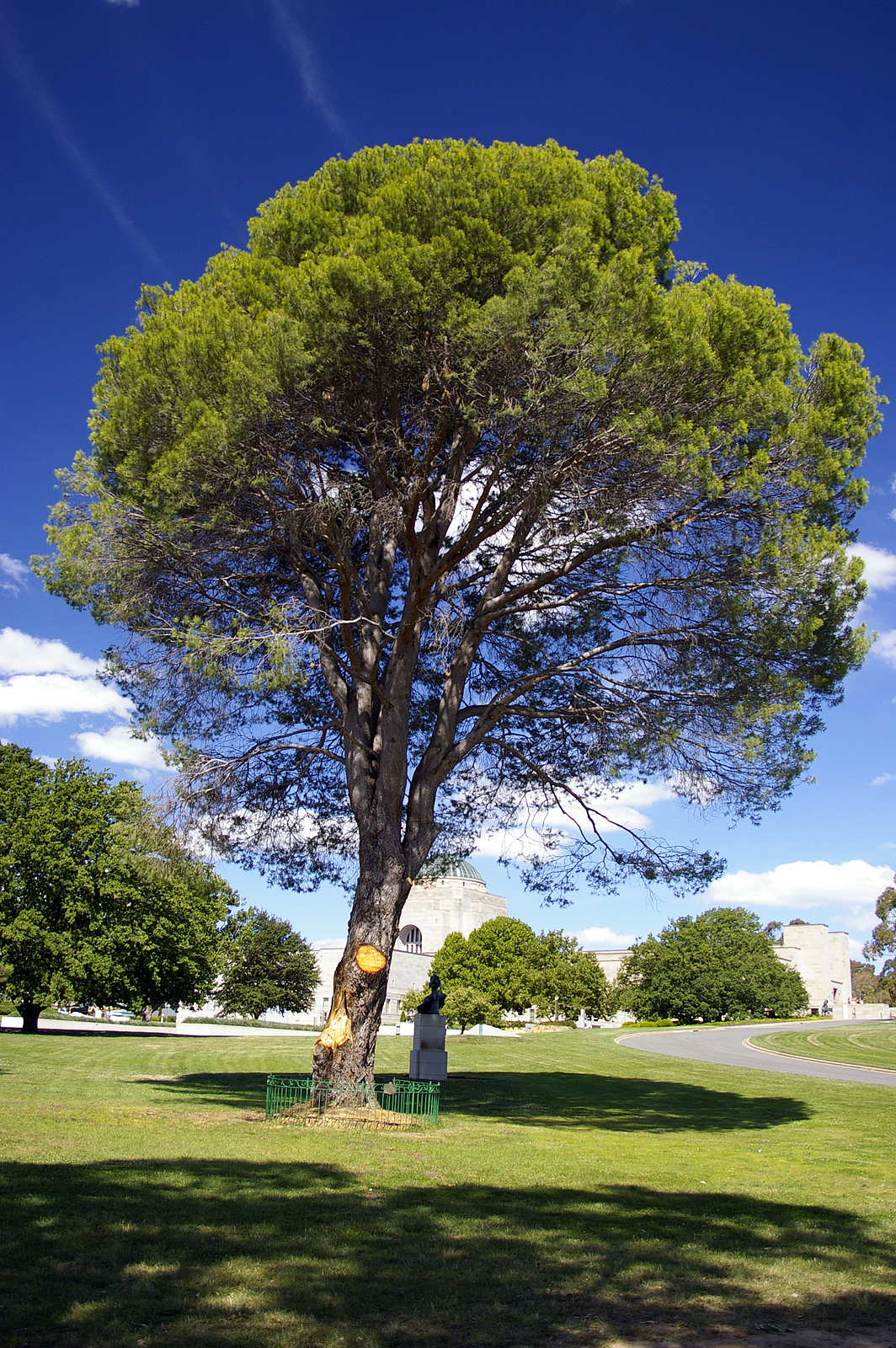 Lone Pine at the Australian War Memorial in Canberra, Australian Capital Territory. (The remaining "Lone Pine" at Galipoli was a Pinus brutia, but several memorial trees, including this specimen, are Pinus halepensis, grown from seeds/cones on branches shading Turkish trenches at Galipoli. Refer to [1] for more information.)